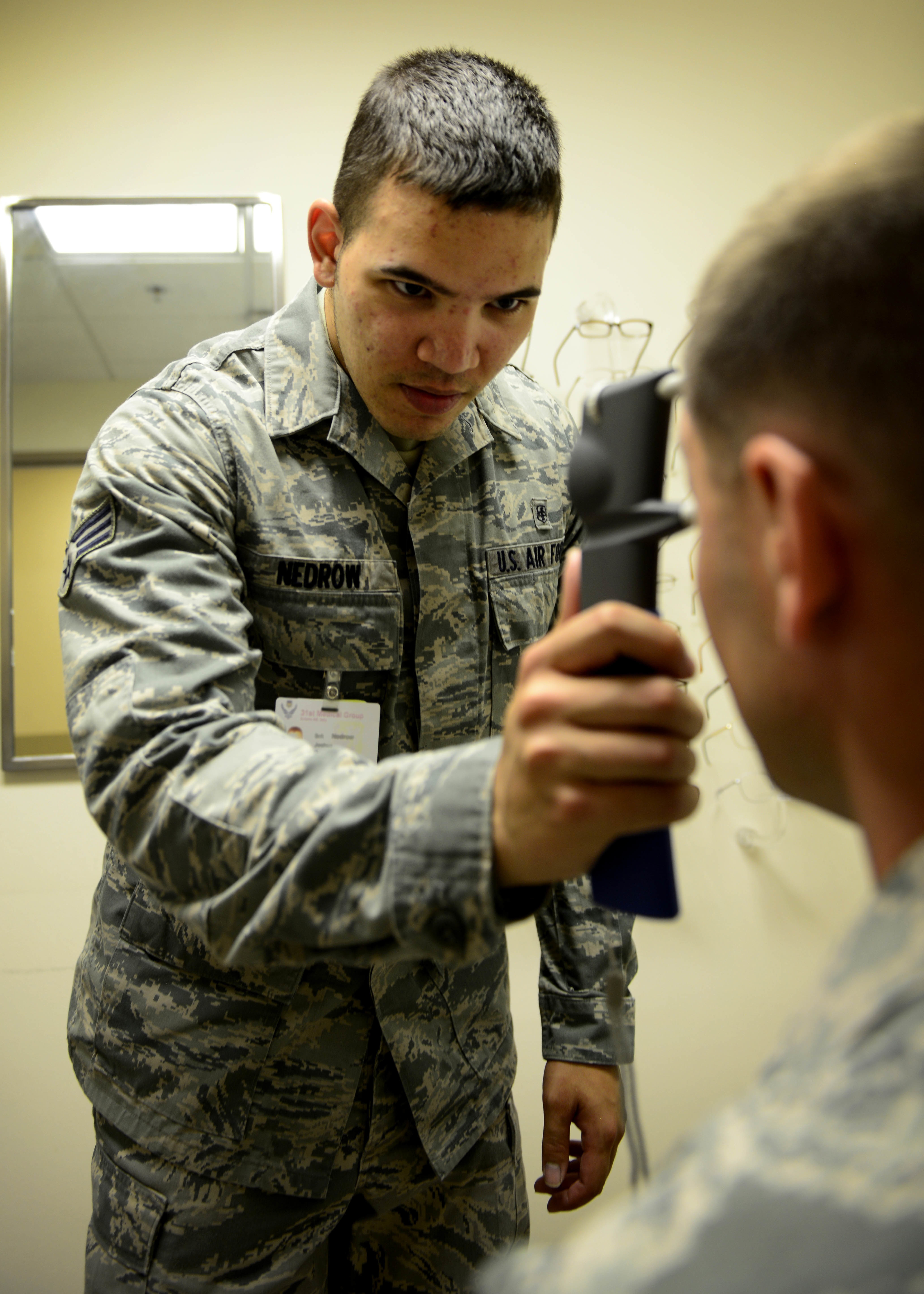 U.S. Air Force Senior Airman Joshua Nedrow, 31st Aerospace Medicine Squadron optometry technician, measures the intraocular pressure of a patient, July 7, 2015, at Aviano Air Base, Italy. In addition to performing routine exams, the optometry clinic offers eye glass and contact lens prescriptions. (U.S. Air force photo by Senior Airman Areca T. Wilson/Released)